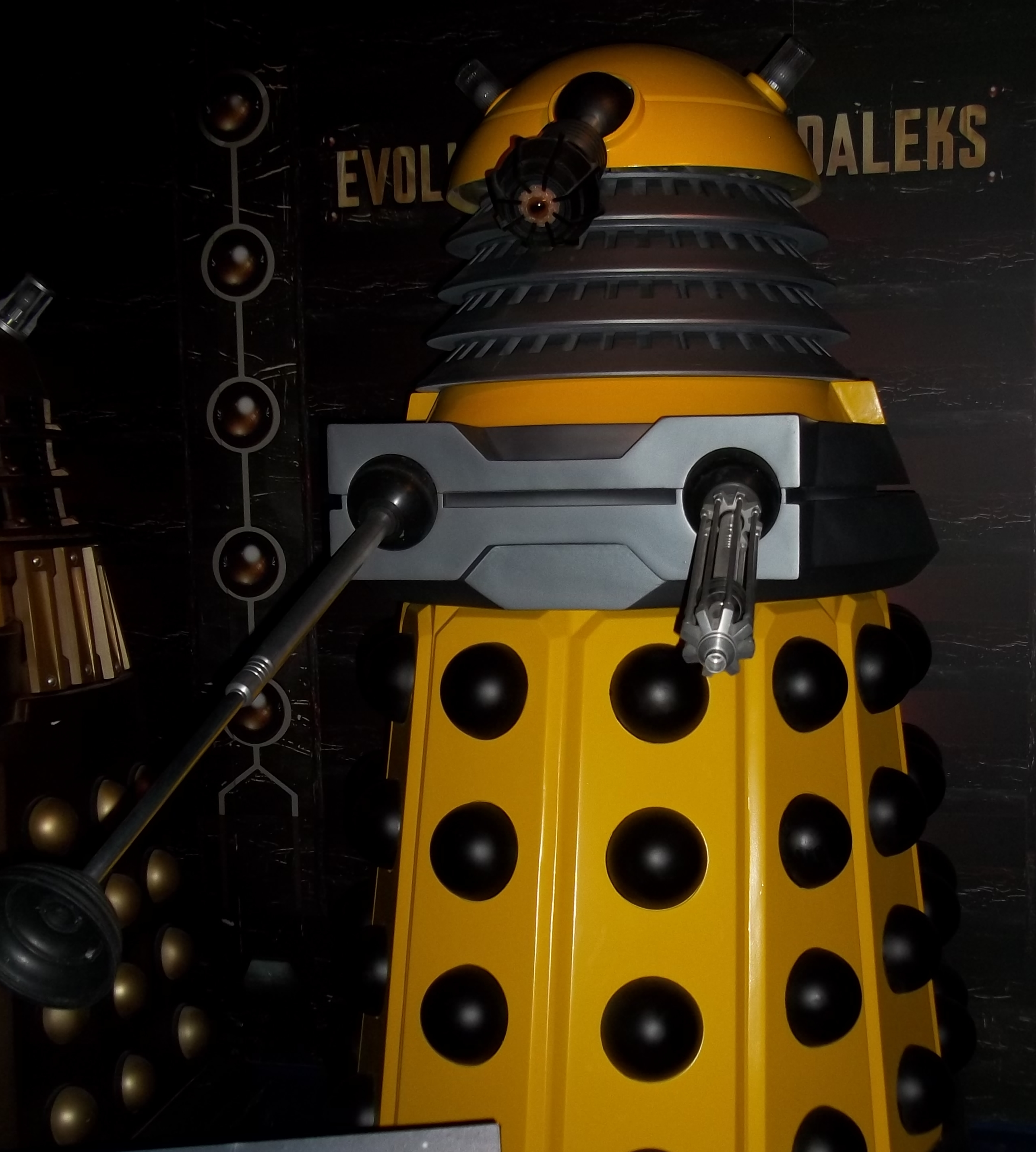 Eternal Dalek Doctor Who Experience